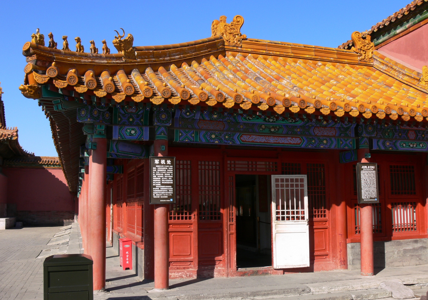 Jun Ji Chu